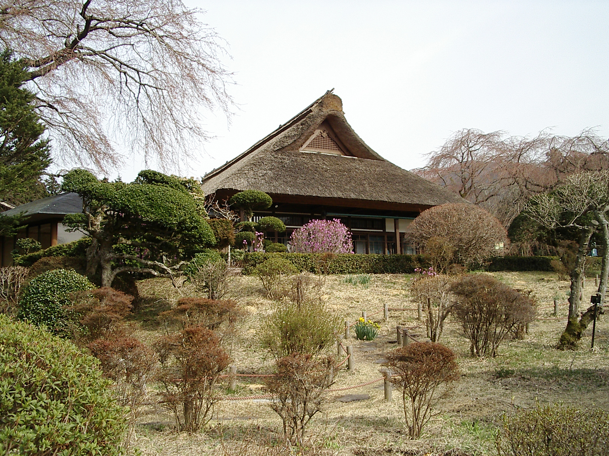 御殿場市にある秩父宮別邸母屋。現在は秩父宮記念公園。 Country house of Prince Chichibu in Gotemba.